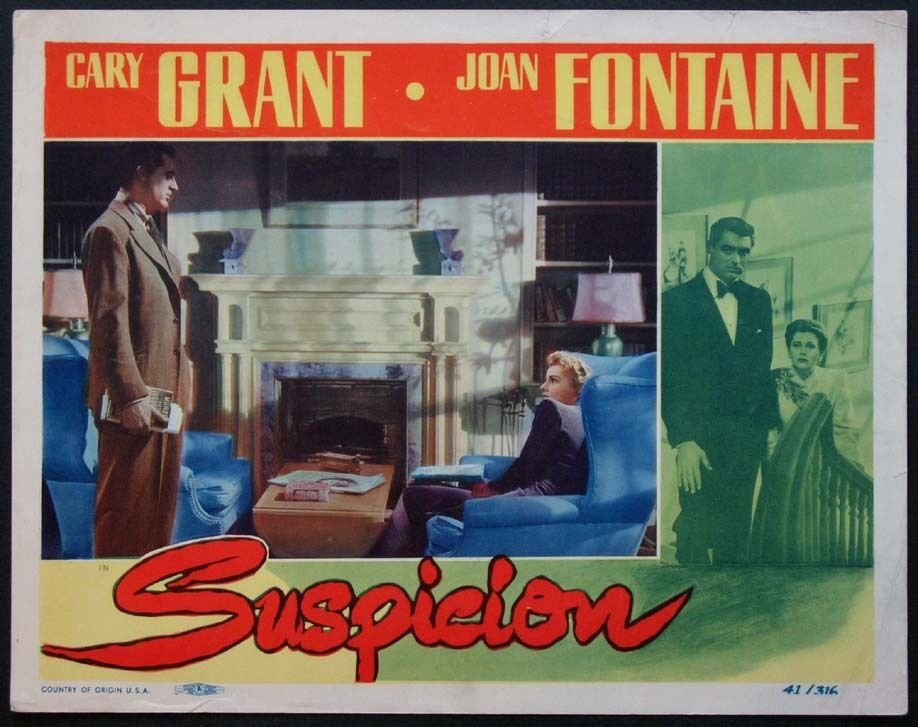 Lobby card for the American film Suspicion (1941). The item has no copyright marks as can be seen in the links. At bottom right is a logo indicating the card was produced by a union print shop and Country of origin USA.